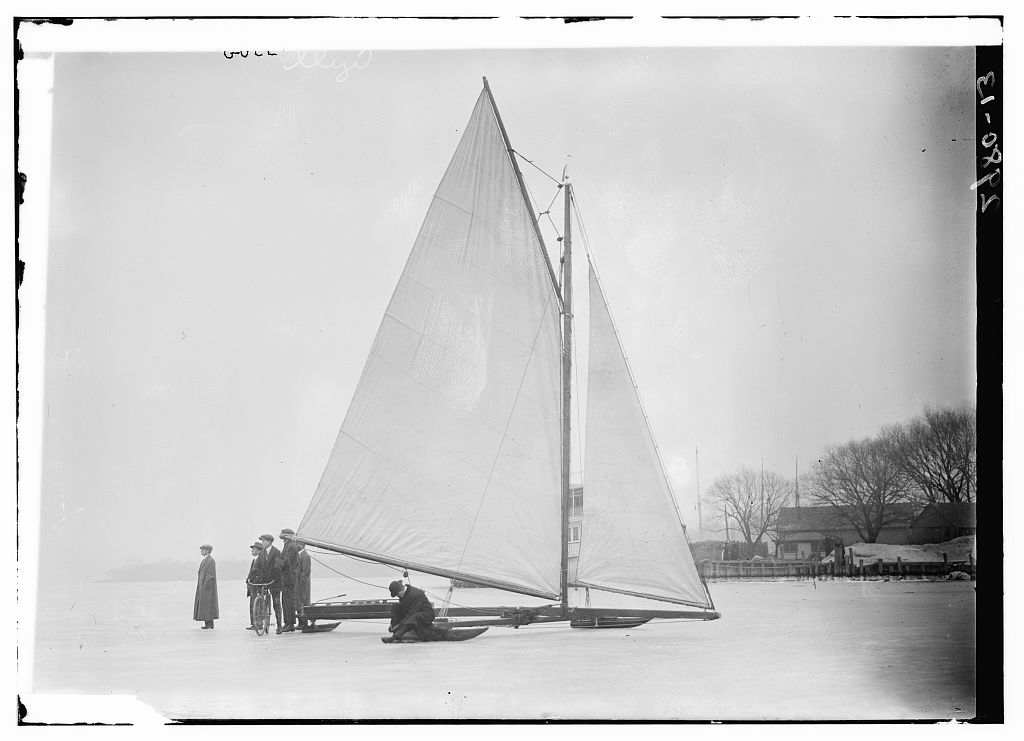 Bain News Service,, publisher. "Gull" [sloop] of Daniel V. Asay [between ca. 1910 and ca. 1915] 1 negative : glass ; 5 x 7 in. or smaller. Notes: Title from unverified data provided by the Bain News Service on the negatives or caption cards. Forms part of: George Grantham Bain Collection (Library of Congress). Format: Glass negatives. Repository: Library of Congress, Prints and Photographs Division, Washington, D.C. 20540 USA, General information about the Bain Collection is available at Persistent URL: Call Number: LC-B2- 2980-13